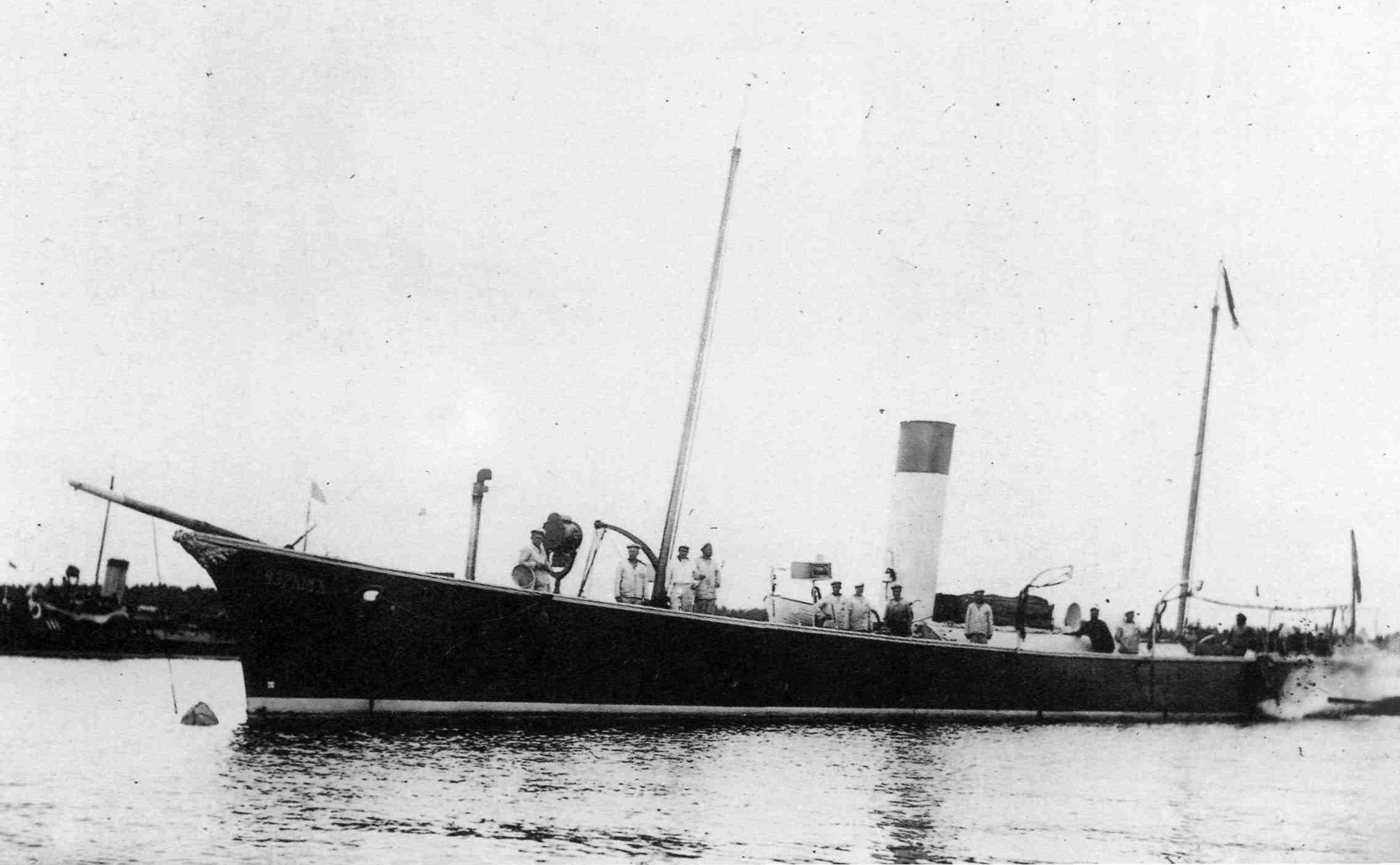 Russian torpedo vessel "Vzryv" (1877)